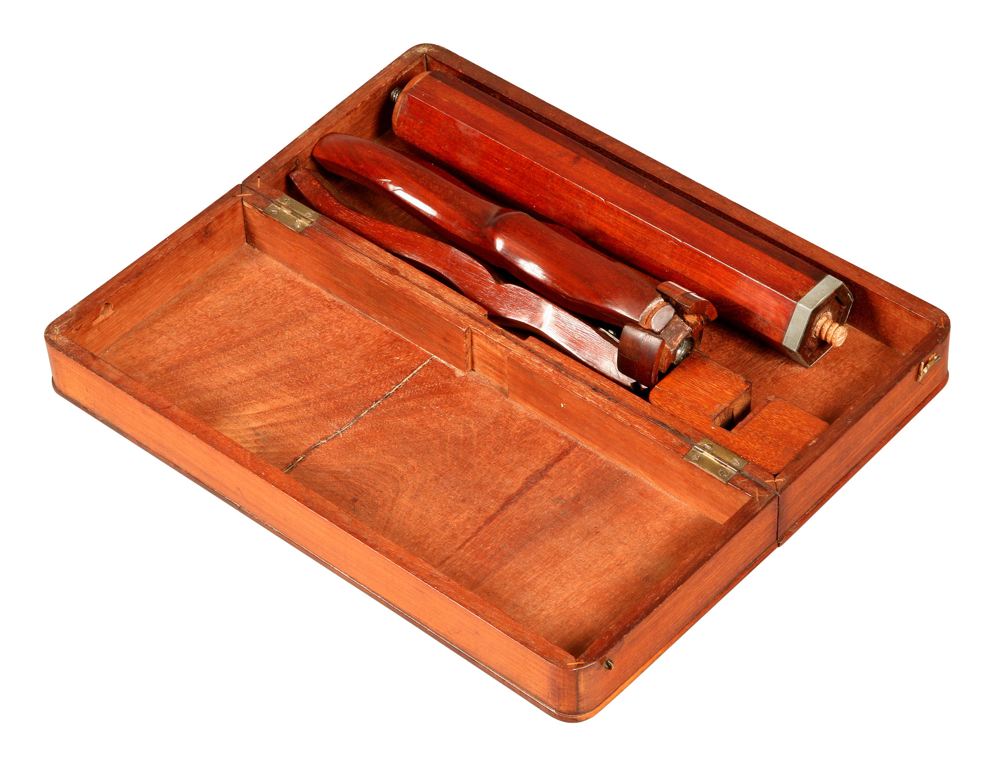 An early 19th Century Campaign Games Table that packs down into its box lid.